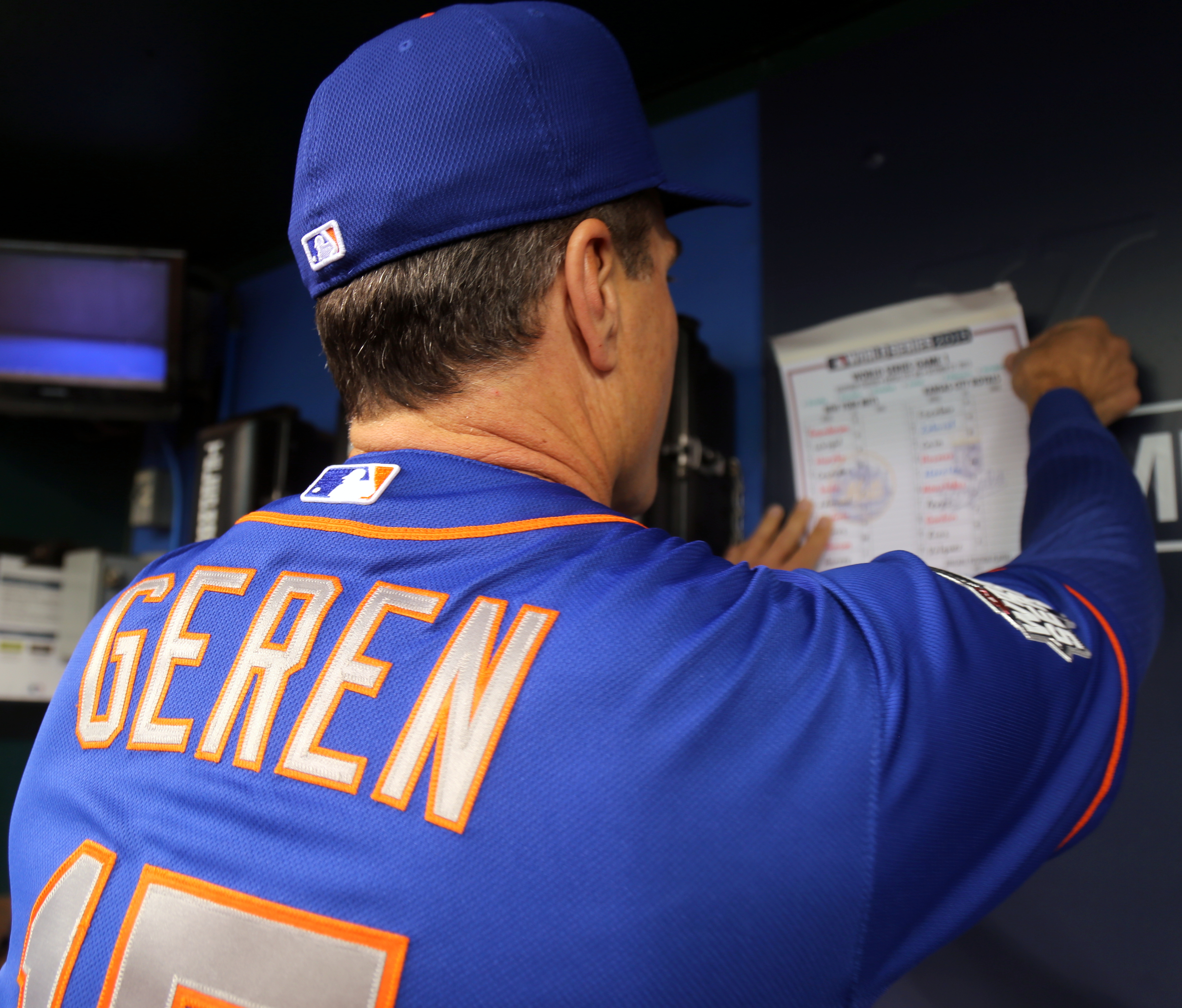 Bench coach Bob Geren posts the Mets' #WorldSeries Game 1 lineup.